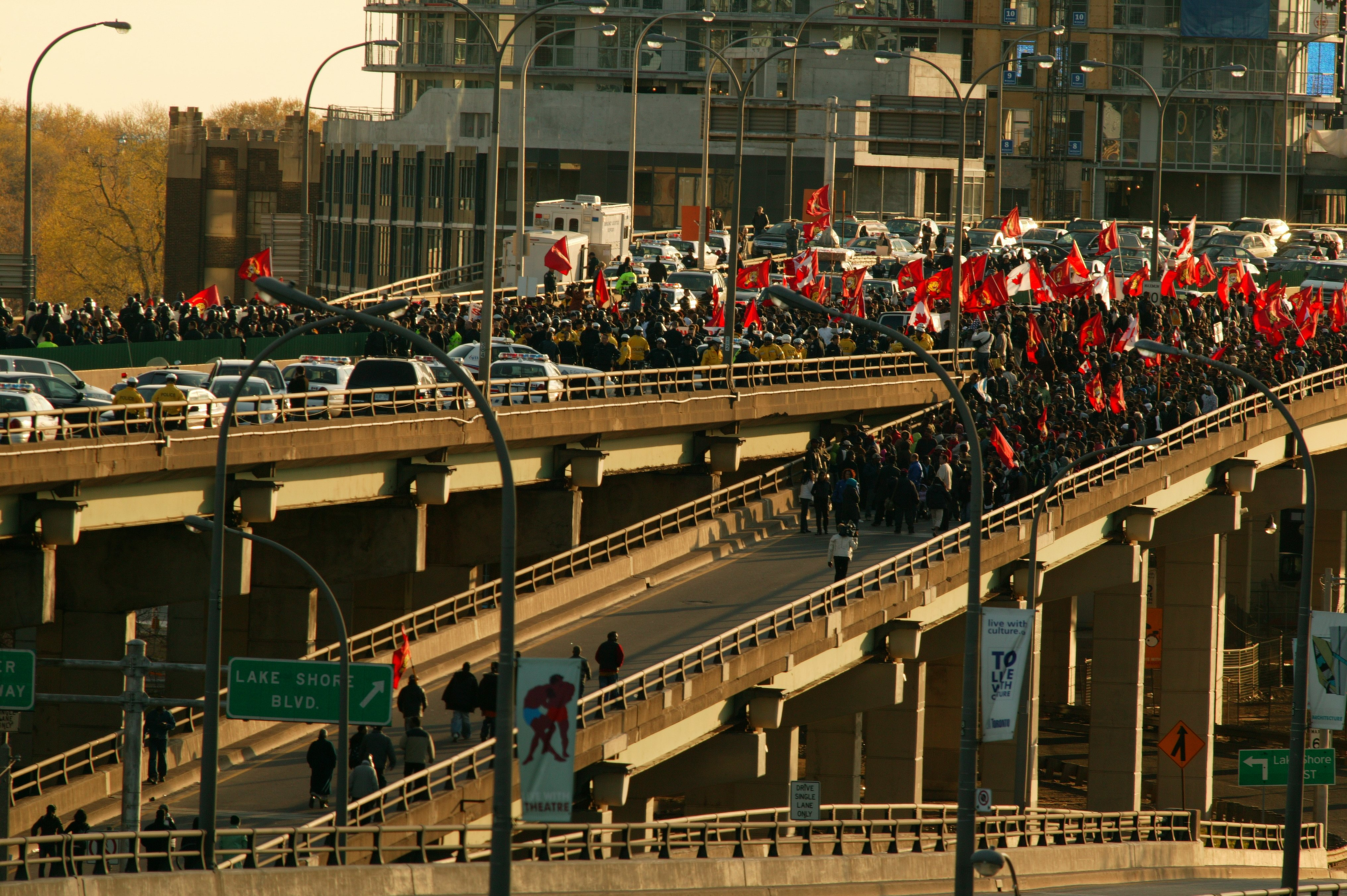 Tamil Protest blocks Gardiner Expressway